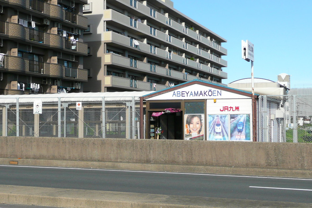 Abeyamakōen Station in Kokuraminami-ku, Kitakyushu, Fukuoka Prefecture, Japan